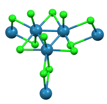 Re3Cl12 cluster within ReCl3, shown with 3 Re's that are attached.